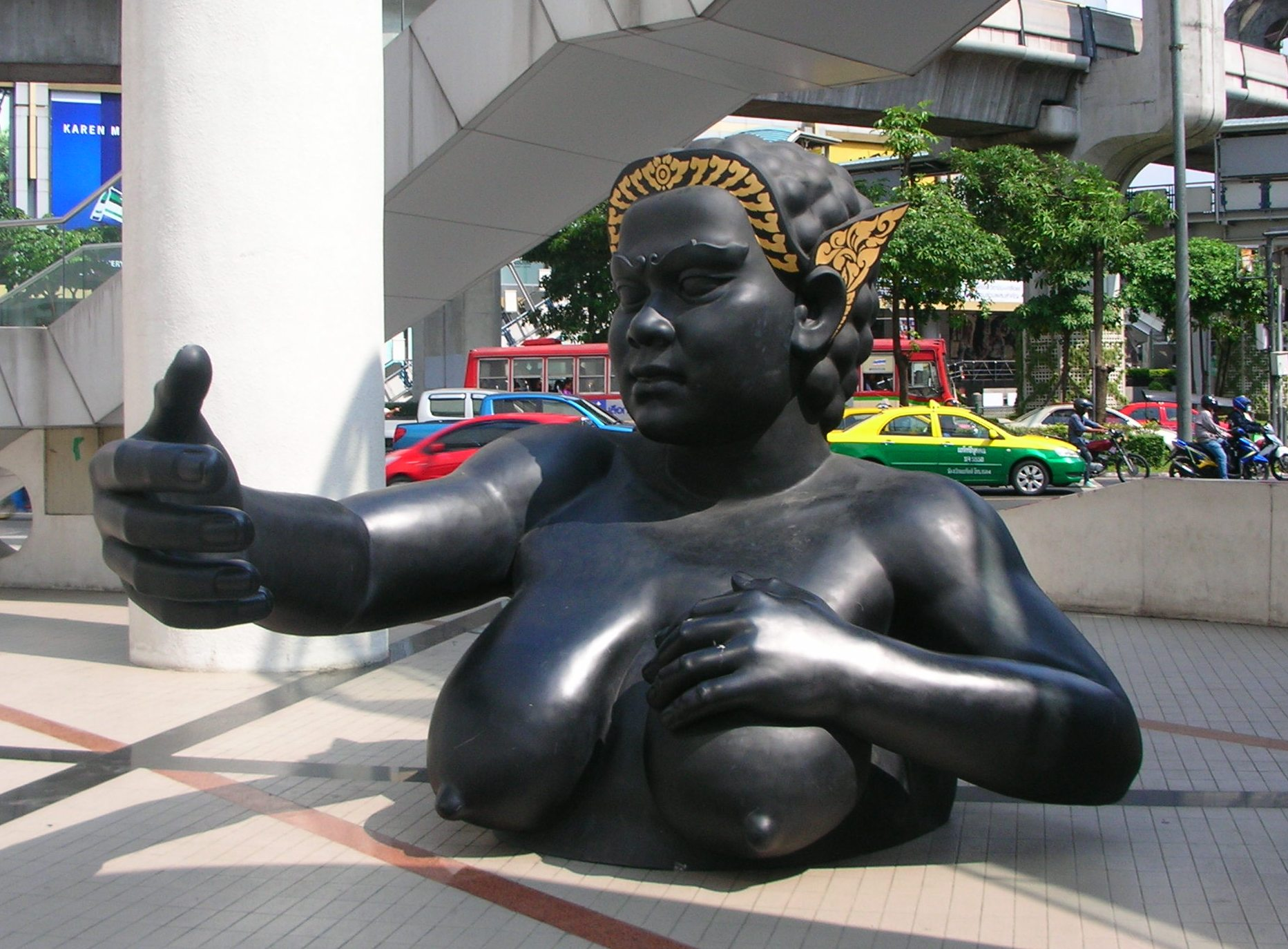 Statue of a female yak (yaksha) or ogress (Thai: ยักษ์; Pali: Yakkhini) in central Bangkok